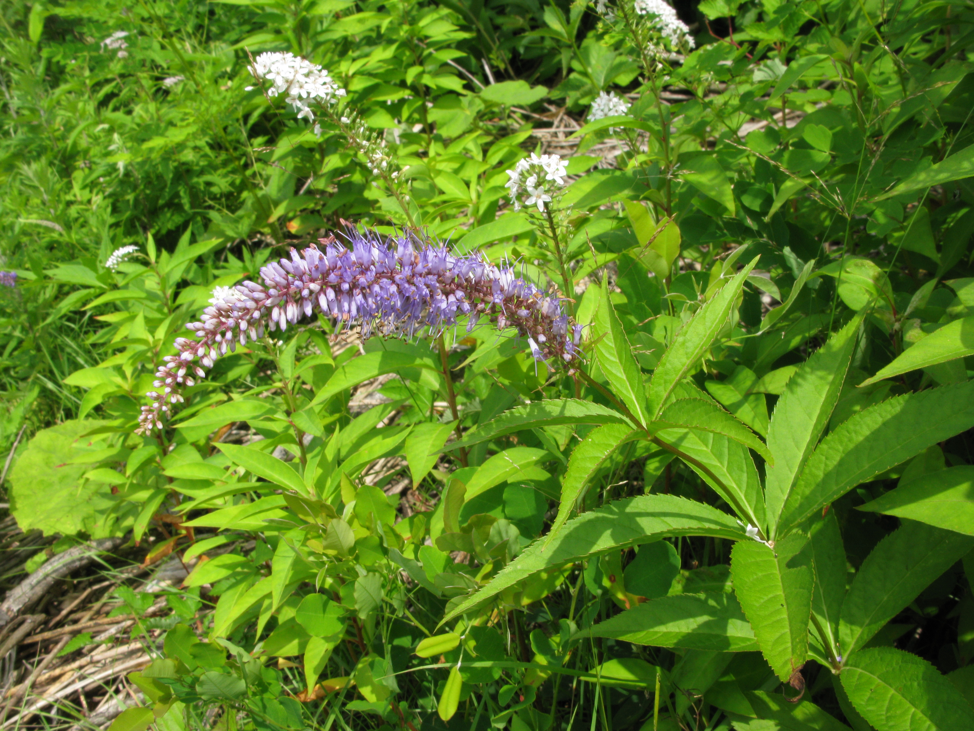 Veronicastrum japonicum, Mt. Bandai-san, Fukushima pref., Japan